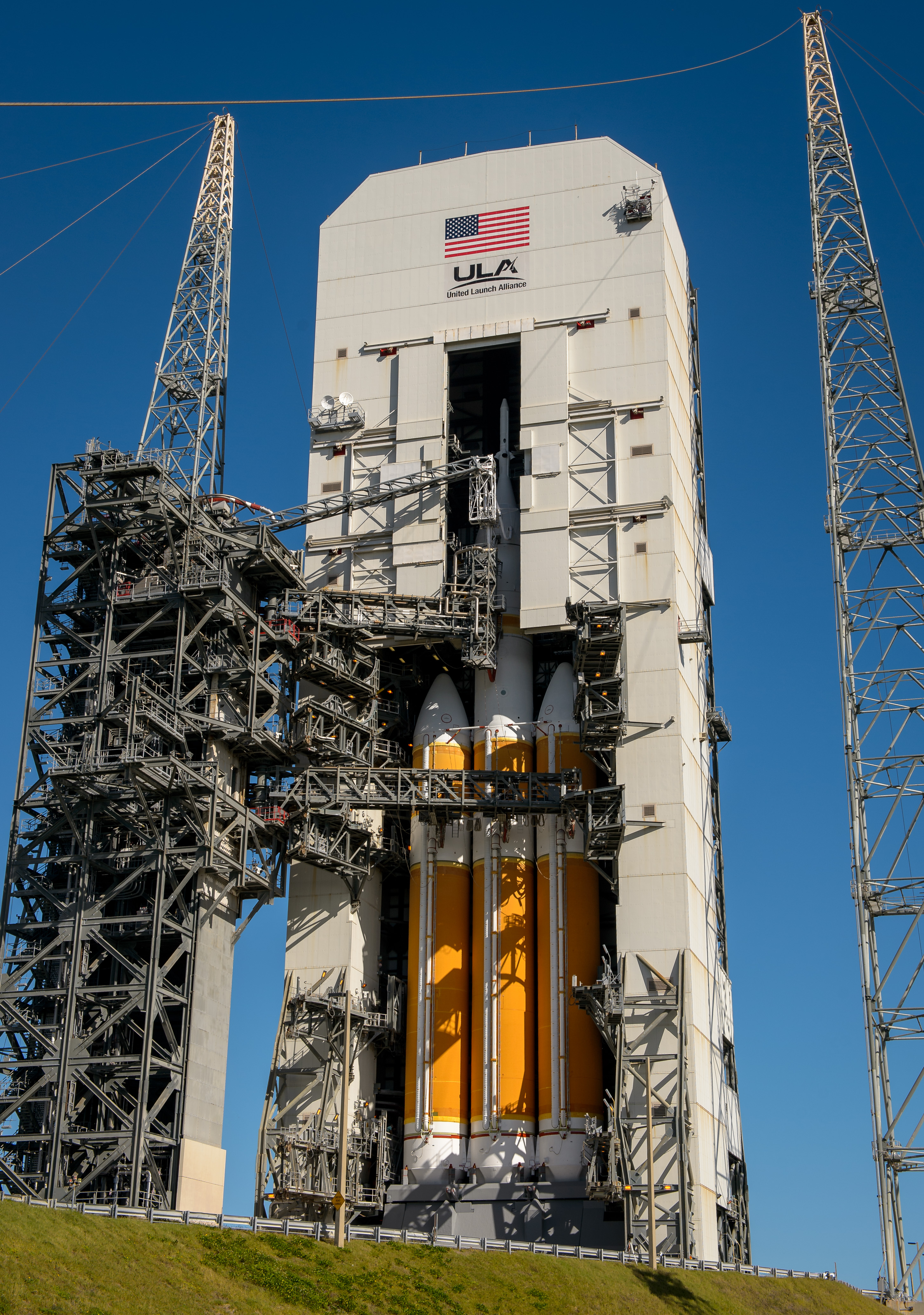 NASA’s Orion spacecraft mounted atop a United Launch Alliance Delta IV Heavy rocket is visible inside the Mobile Service Tower where the vehicle is undergoing launch preparations, Wednesday, Dec. 3, 2014, Cape Canaveral Air Force Station's Space Launch Complex 37, Florida. Orion is NASA’s new spacecraft built to carry humans, designed to allow us to journey to destinations never before visited by humans, including an asteroid and Mars.